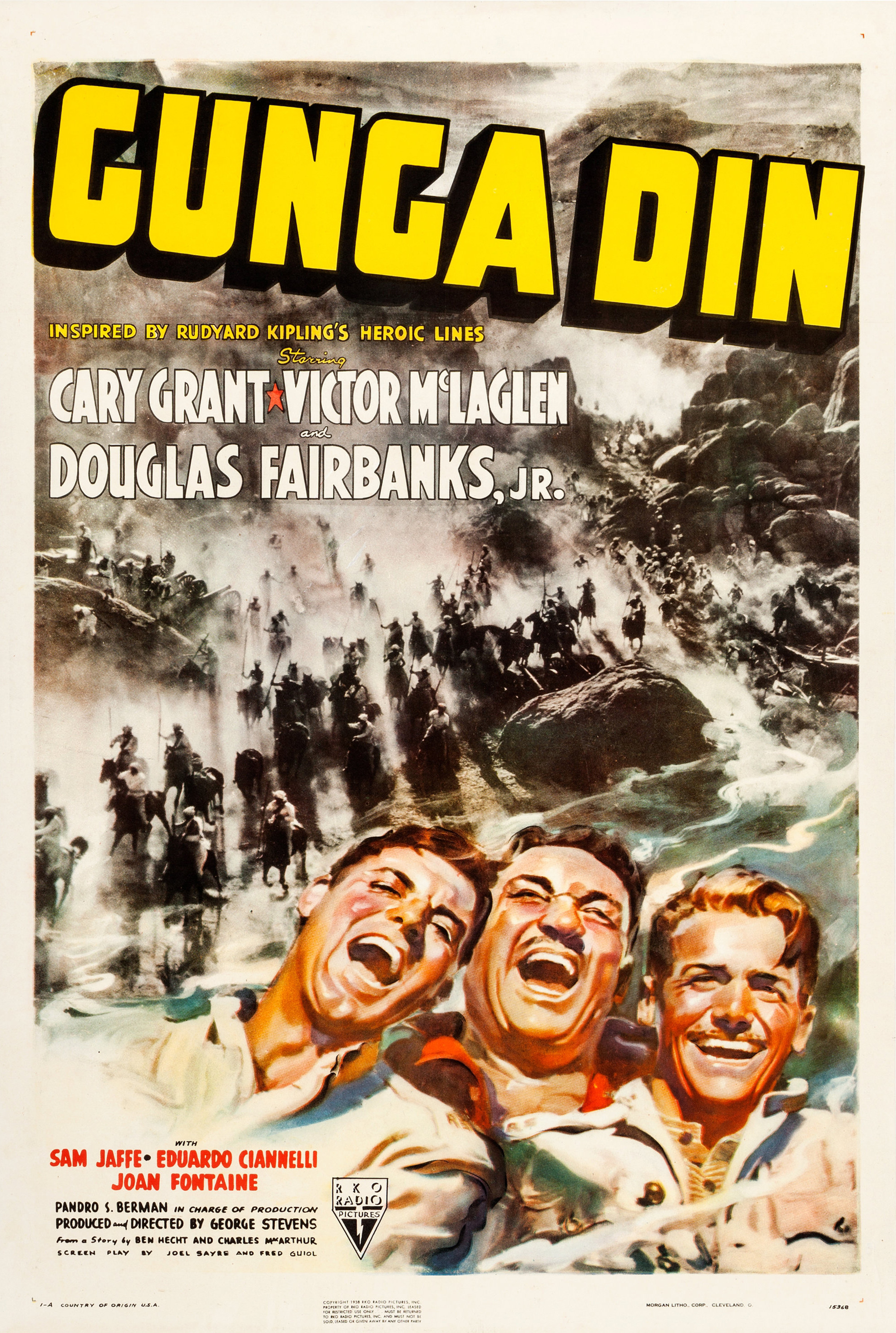 Poster for the original theatrical run of the 1938 American film Gunga Din.